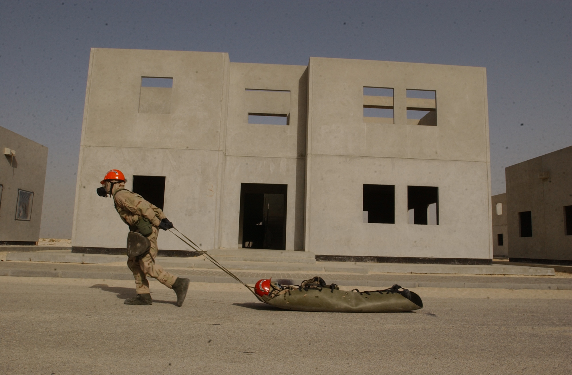 Naval Support Activity (NSA) Bahrain (May 20, 2003) -- A member of the Navy Emergency Response Team (ERT) drags a victim across the pavement as part of a casualty extraction at Naval Support Activity (NSA) Bahrain. Members of the ERT are training at a remote facility to hone their skills on Chemical, Biological and Radiological defense, response and recovery. U.S. Navy Photo by Photographer's Mate 1st Class Aaron Ansarov. (RELEASED)